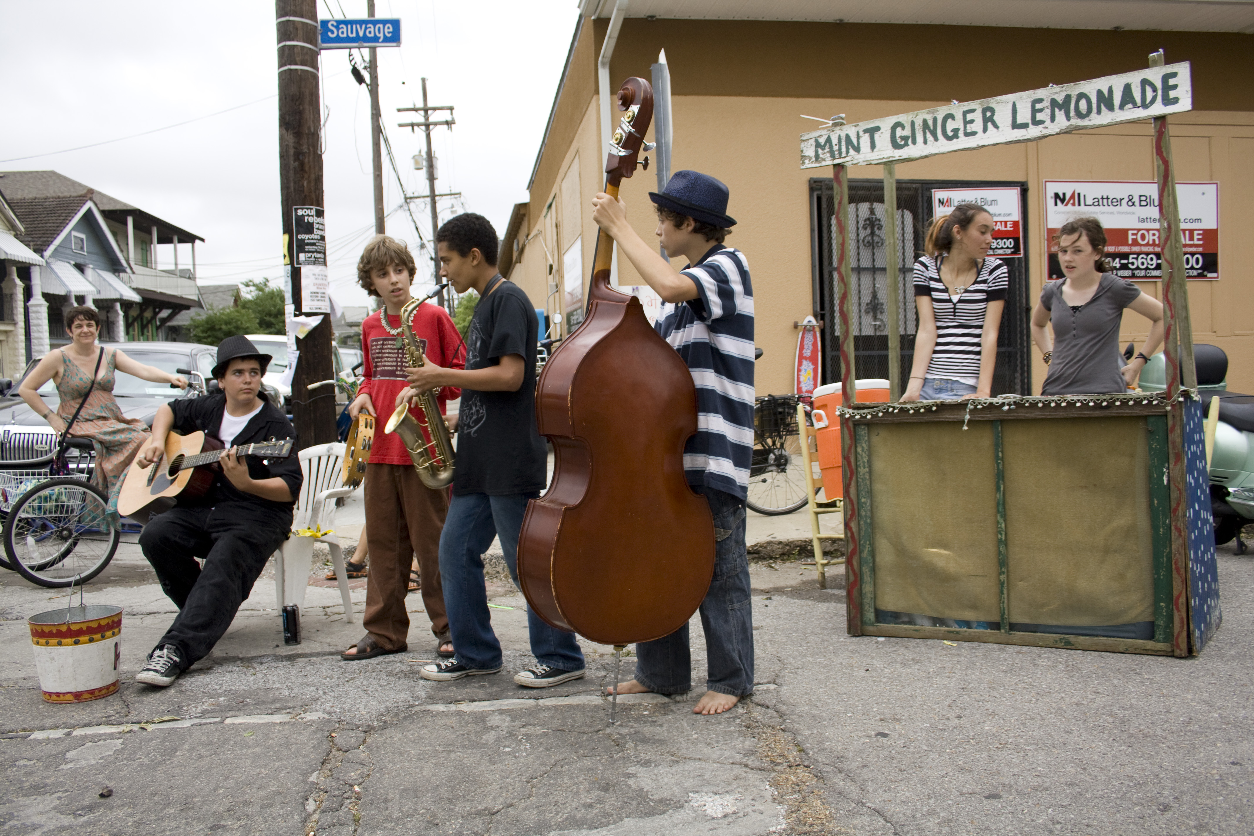 New Orleans: On Sauvage Street near one of the entrances to the Jazz & Heritage Festival at the Fair Grounds. Young band busks on corner; lemonade stand.